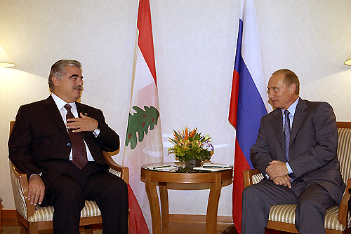 PUTRAJAYA, MALAYSIA. President Putin with Prime Minister of Lebanon Rafik Hariri.